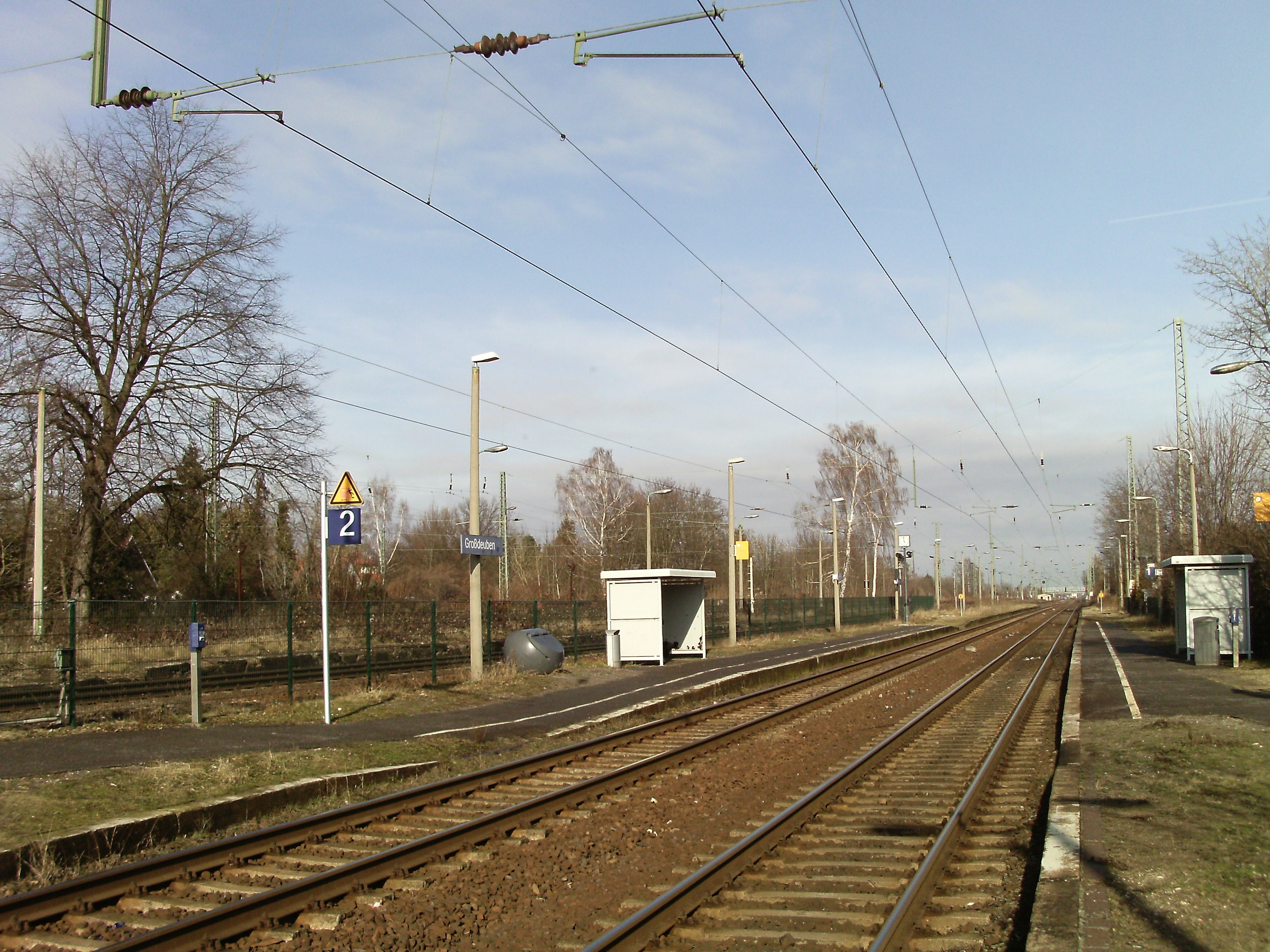 Grossdeuben railway station (Böhlen, Leipzig district, Saxony)